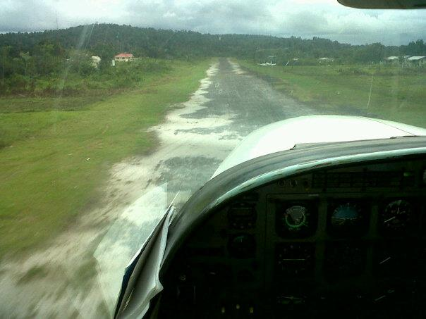 This file shows the approach of the Kamarang airstrip. Taken from the cockpit of a Cessna Grand Caravan.